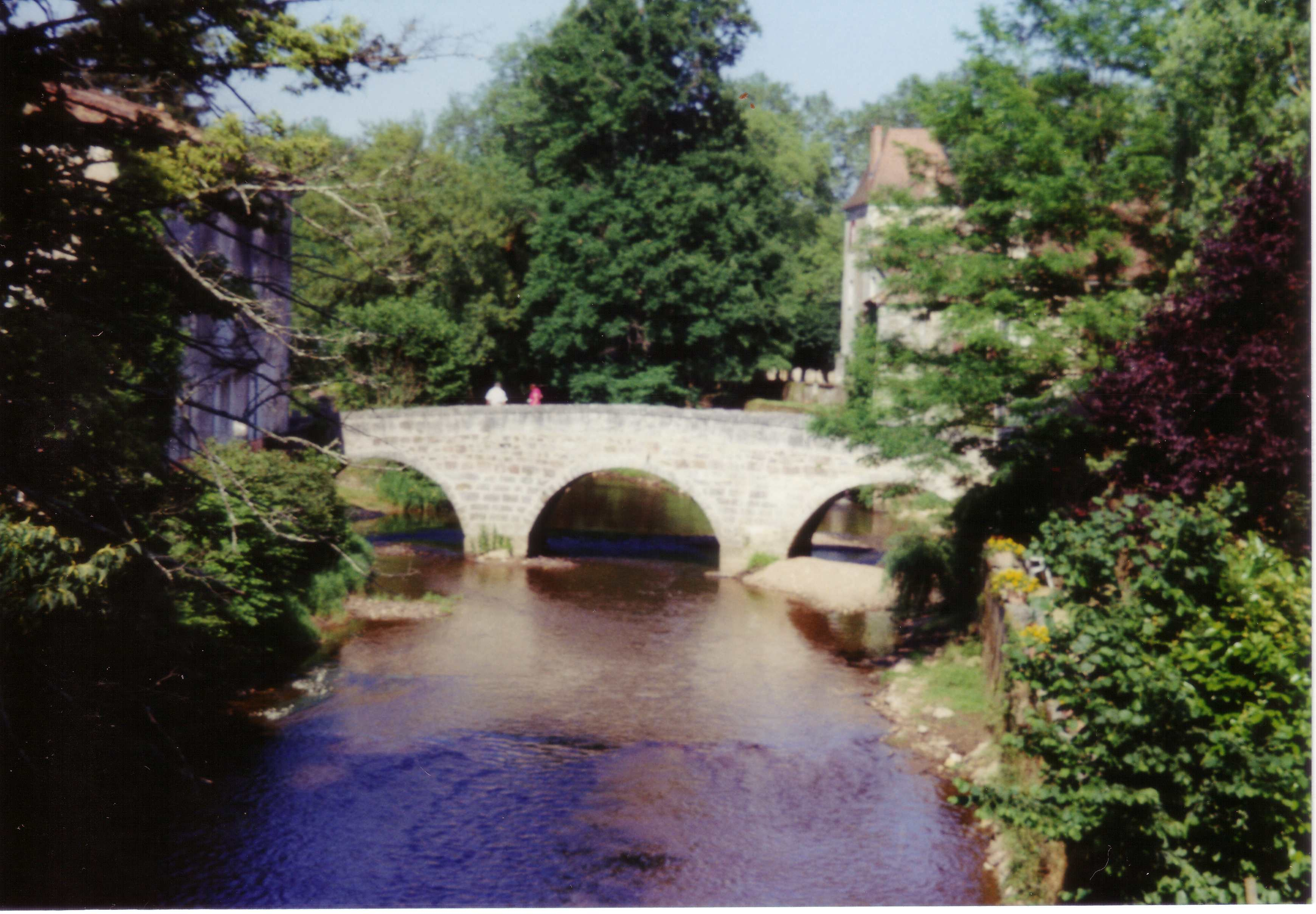 Bridge at Saint-Jean-de-Côle near Brantôme, Dordogne, France.